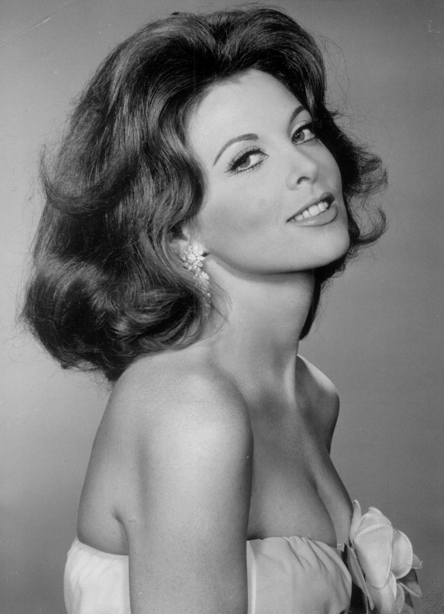 Photo of Tina Louise from her work on the television program Gilligan's Island.